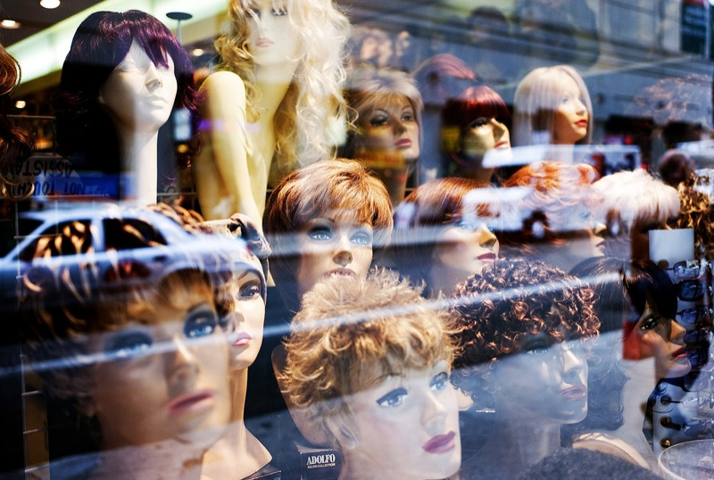 Wigs on display in a shop window